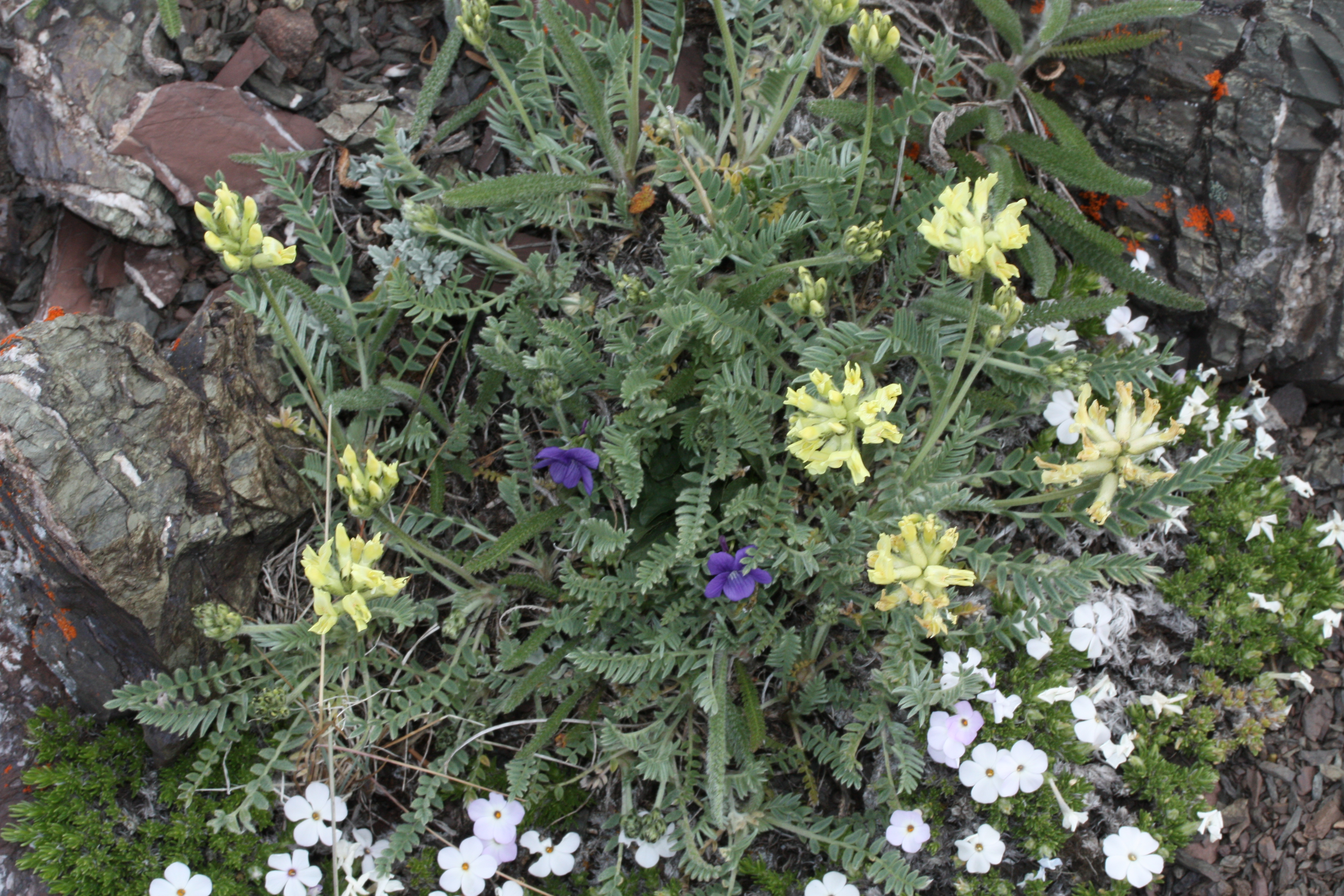 Yellow-flower Locoweed